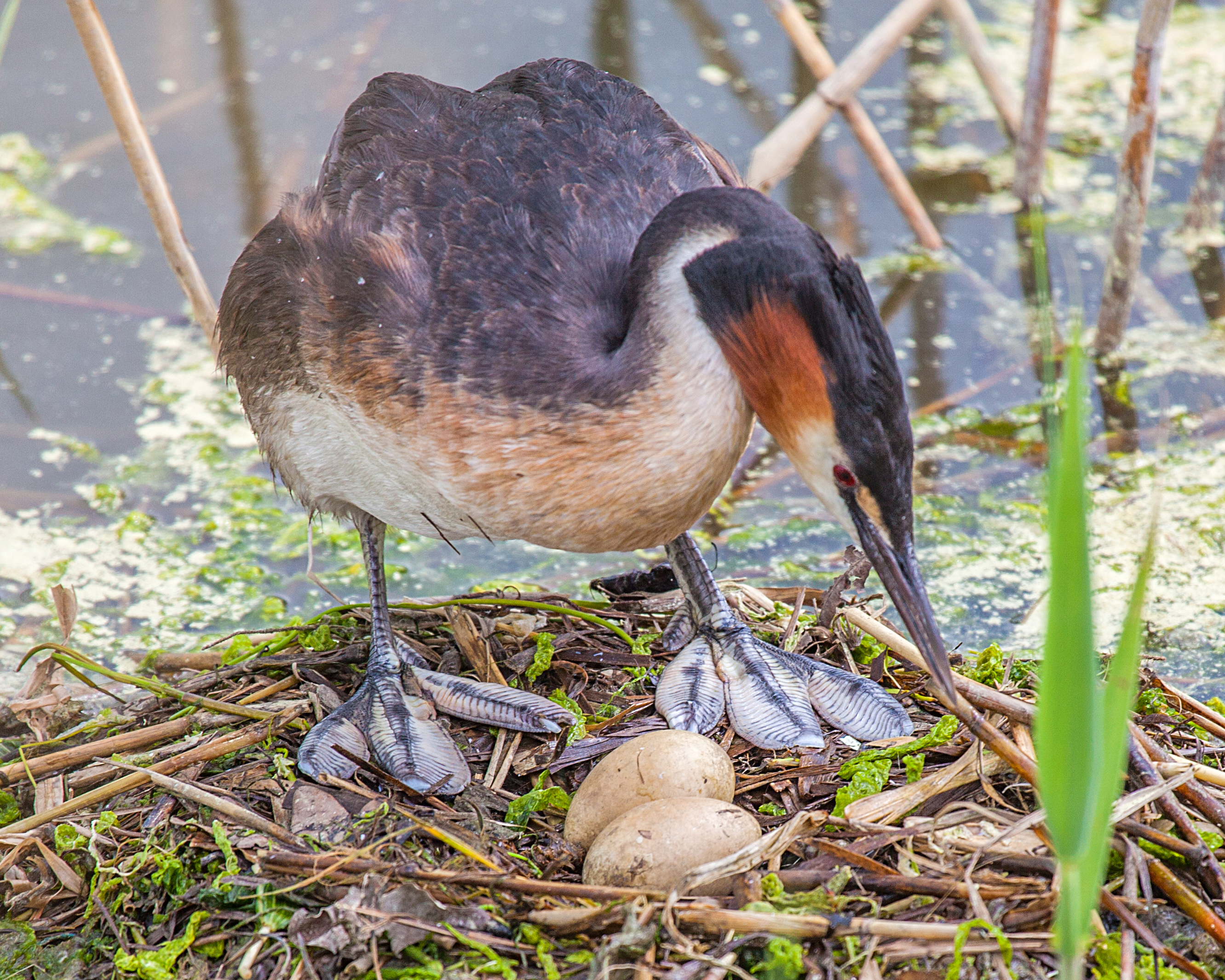 Great Crested Gebe (Podiceps cristatus) near Vaxholm, Stockholm, Sweden 2013